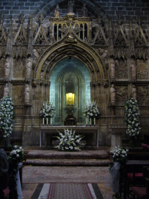 Holy Grail in Valencia, Spain